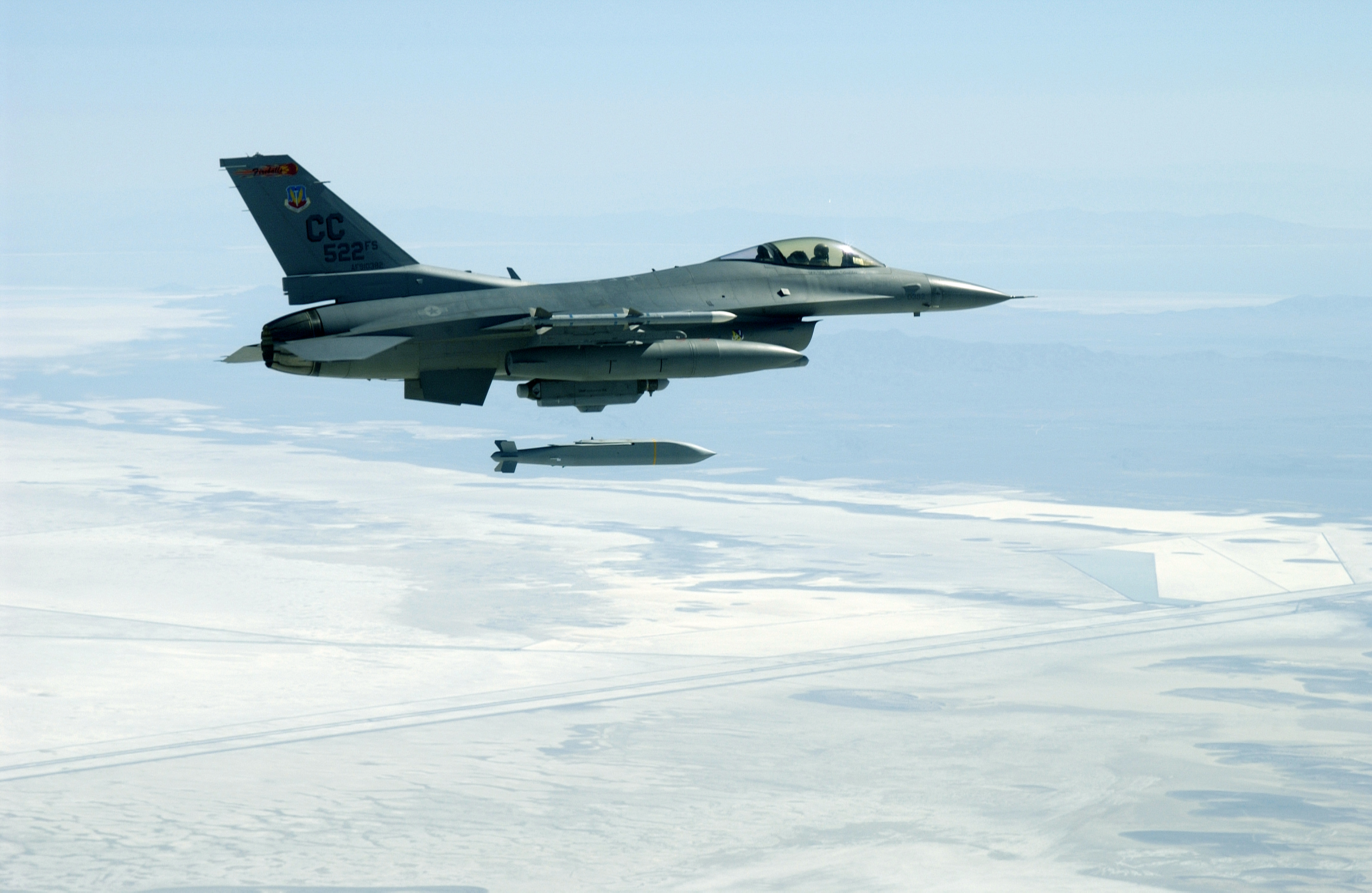 Captain David Lee, an F-16C Fighting Falcon pilot from the 522nd Fighter Squadron "Fireballs", Cannon Air Force Base, New Mexico, releases an AGM-154 Joint Stand-off Weapon (JSOW) air-to-ground guided weapon over the Utah Test and Training Range during a Combat Hammer mission. The mission was part of an Air-to-Ground Weapons System Evaluation Program (WSEP) misison commonly referred to as Combat Hammer hosted by the 86th Fighter Weapons Squadron from Eglin AFB, Florida. The JSOW is a long range, air-to-ground weapon that uses both inertial navigation and global positioning systems for guidance and is designed to attack a vareity of targets. The capabilities of the JSOW include employment in day, night and adverse weather conditions and enhances aircraft survivability by allowing launch aircraft to standoff outside the range of enemy defenses, interdict and destroy an enemy ground target. This was the first evaluation of the AGM-154 being relaesed from an F-16 during a Combat Hammer evaluation.